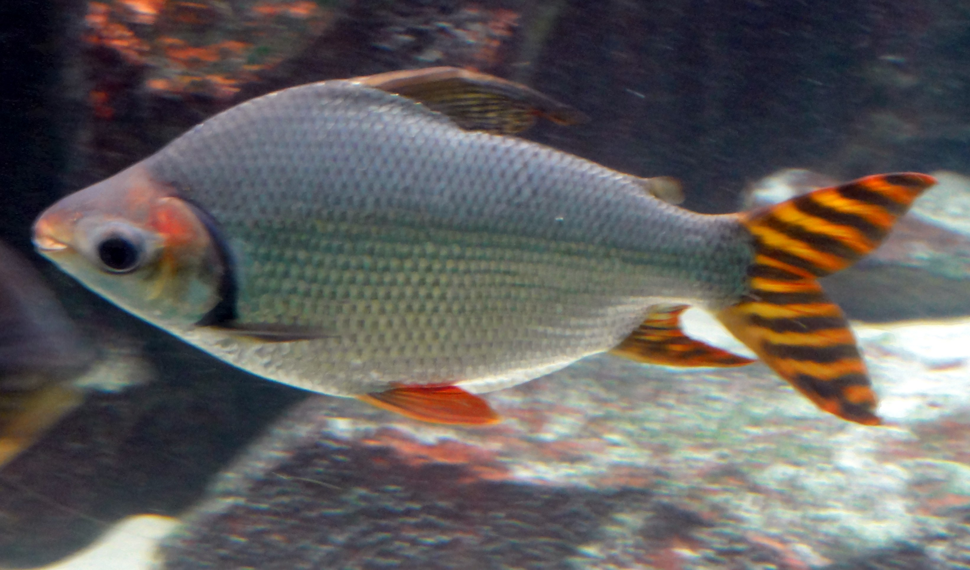 Night characid